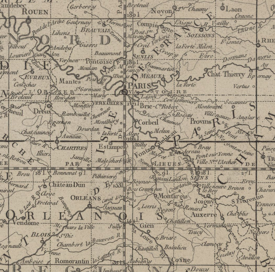 Paris and the surrounding area view part of the 1780 grid map of the French cartograph Mathias Robert de Hesseln.